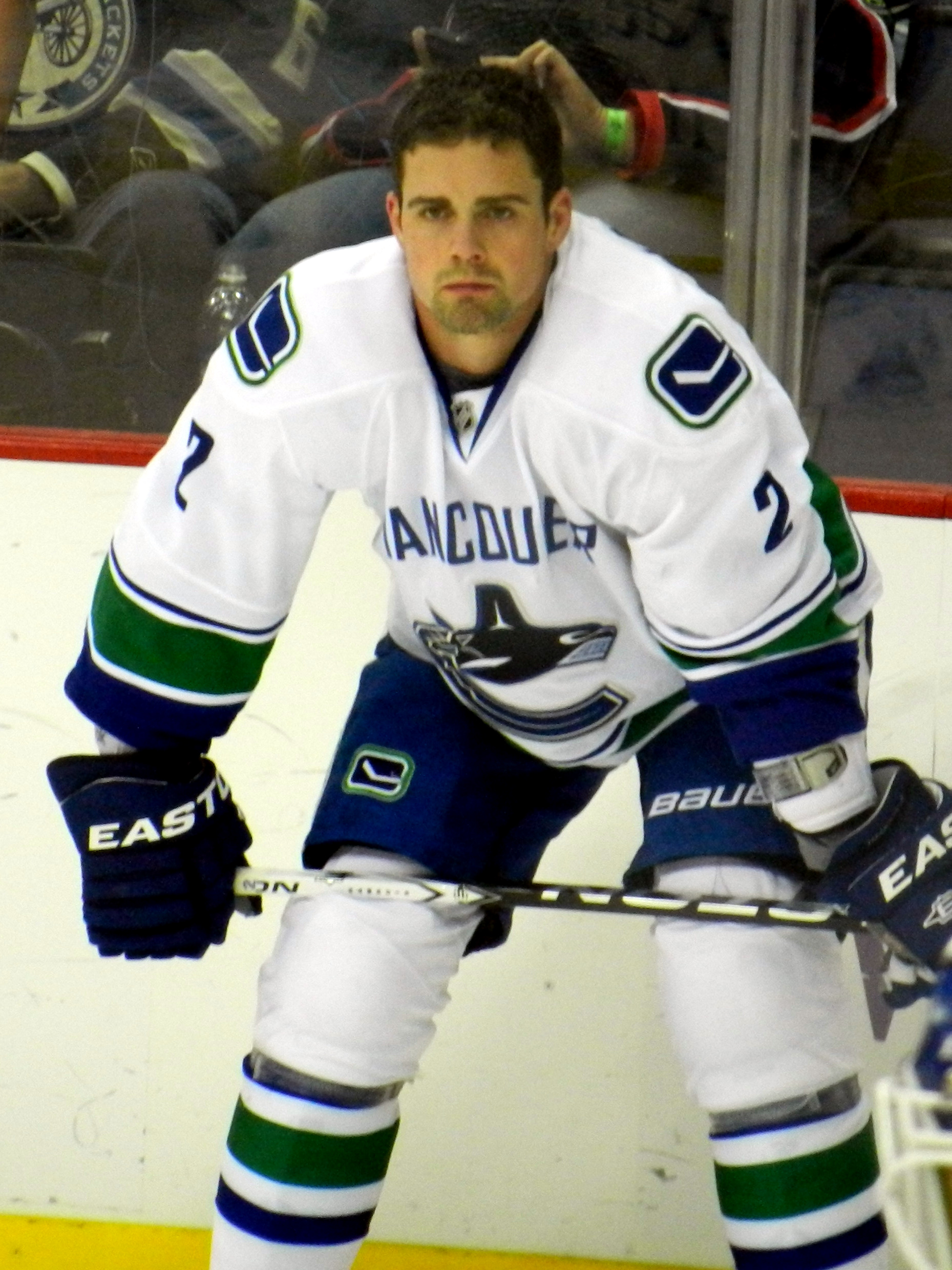 Dan Hamhuis playing for the Vancouver Canucks during warm-up of a game vs. the Columbus Blue Jackets in the 2011-12 season. Vancouver lost the game 2-1 in a shoot-out